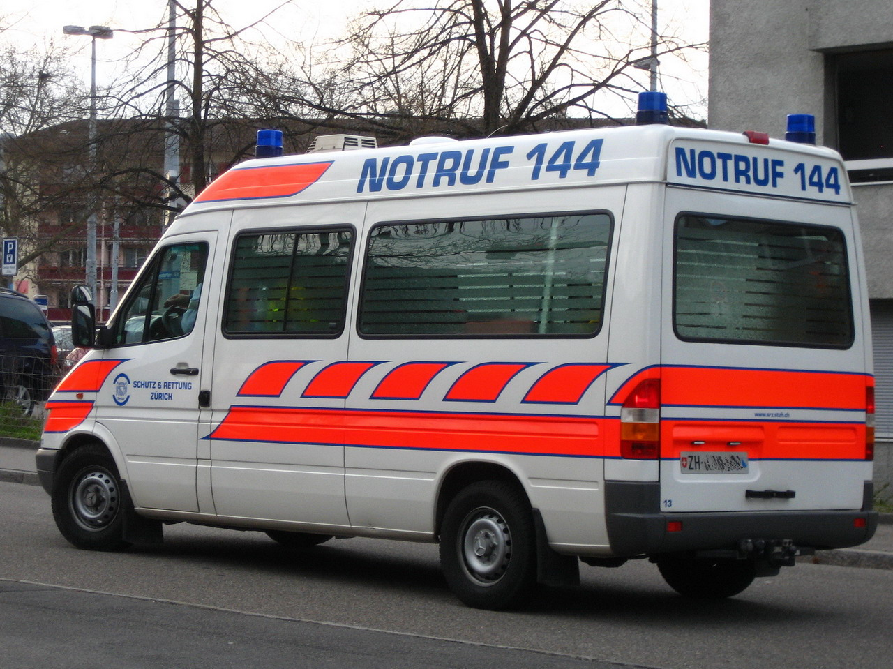 Zurich: Triemli hospital, Sanität Zürich Amubulance car.